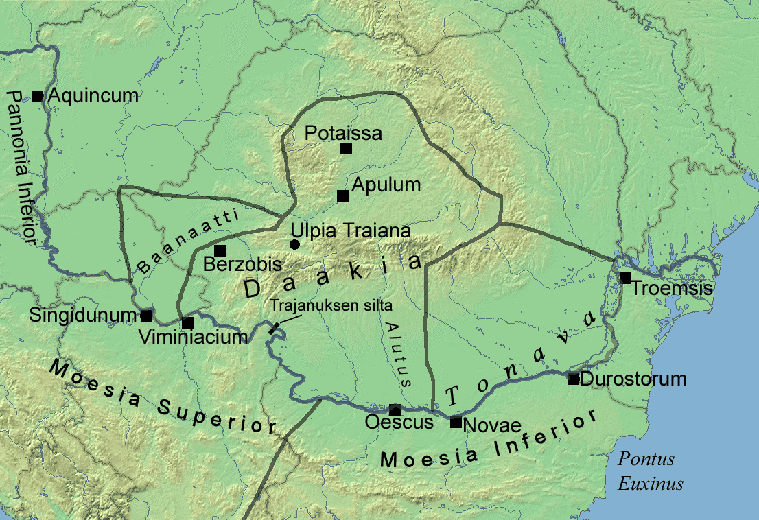 The Roman province of Dacia. The map is based on two maps in "Trajan Optimus Princeps" by Julian Bennett (ISBN 0253214351) on pages 141 and 164